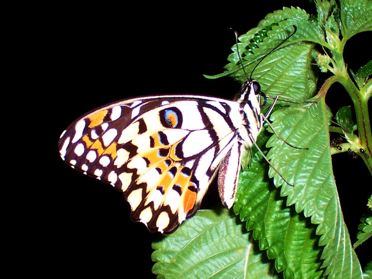 Papilio demoleus on Acalypha leaves; Bogor, West Java, Indonesia